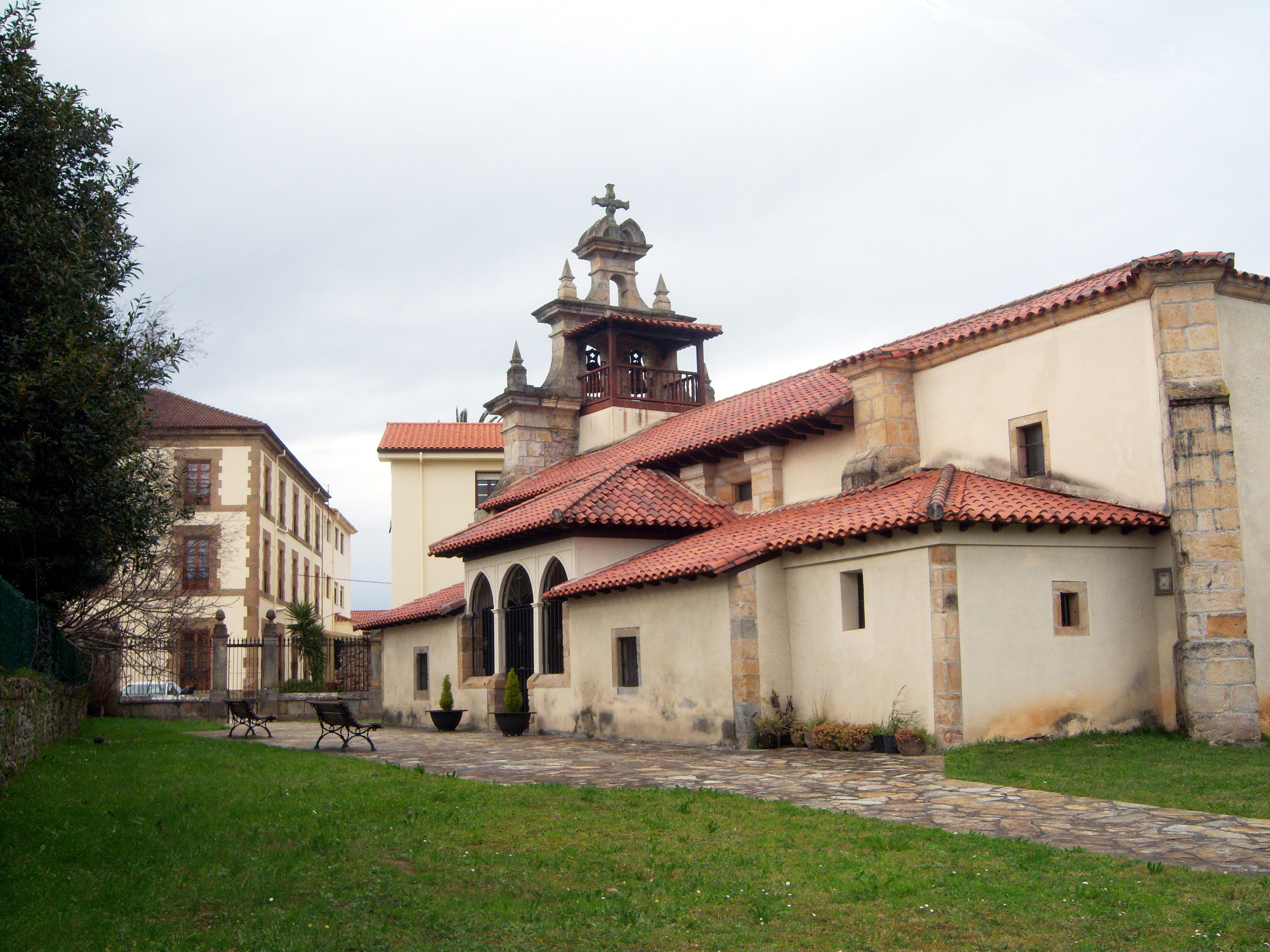 Church of San Vicente of San Vicente (Cantabria, Spain). At the bottom of the Colegio Apostolado del Sagrado Corazón de Jesús.